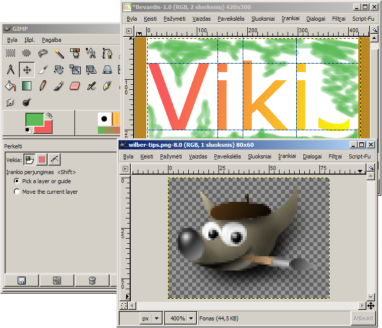 GIMP (lithuanian locale) screenshot